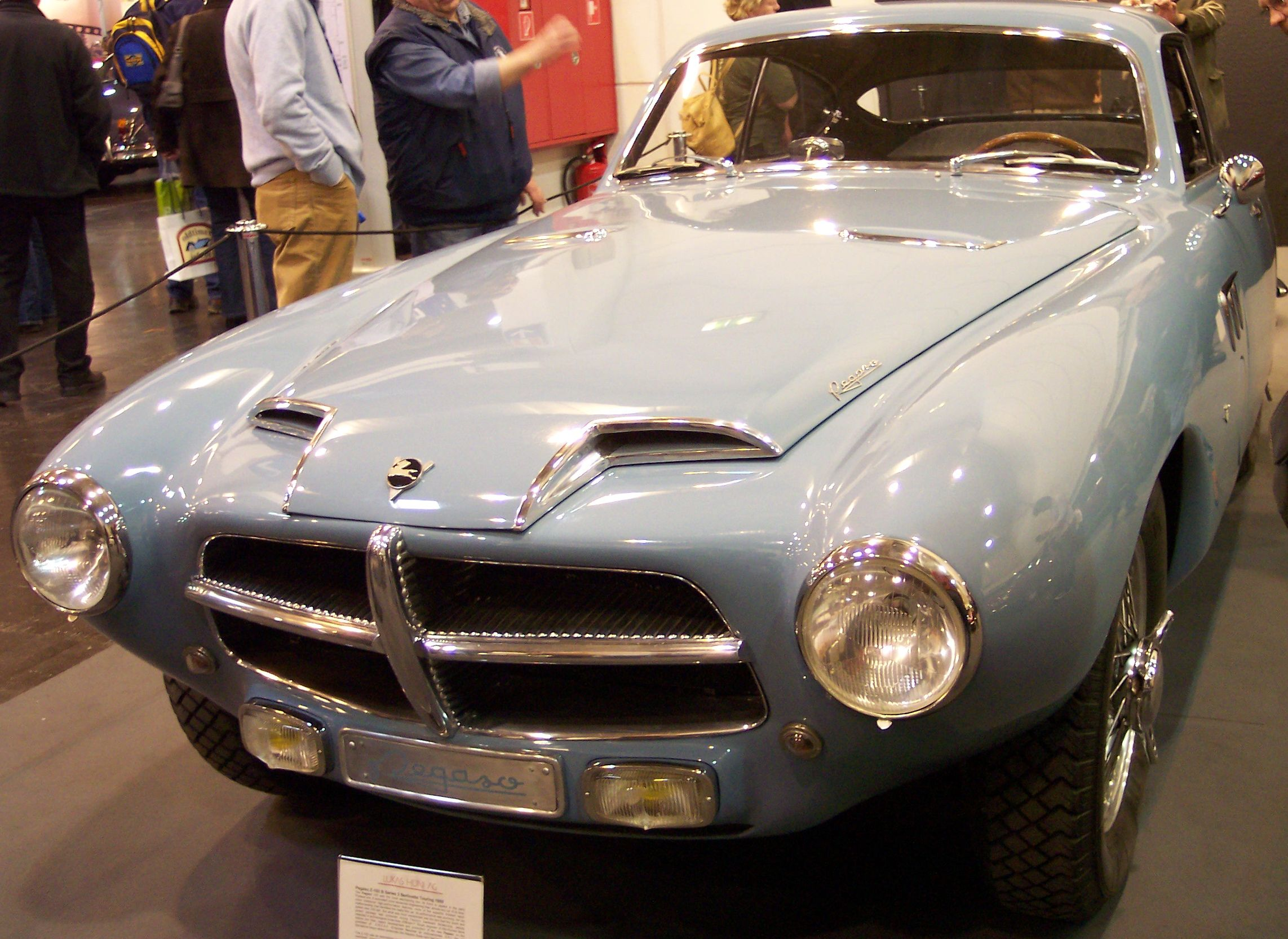 Techno-Classica 2007, Pegaso Z 102 B Series 2 Berlinetta Touring, 5 gears, 3178 cc, 168 kw (230 HP)